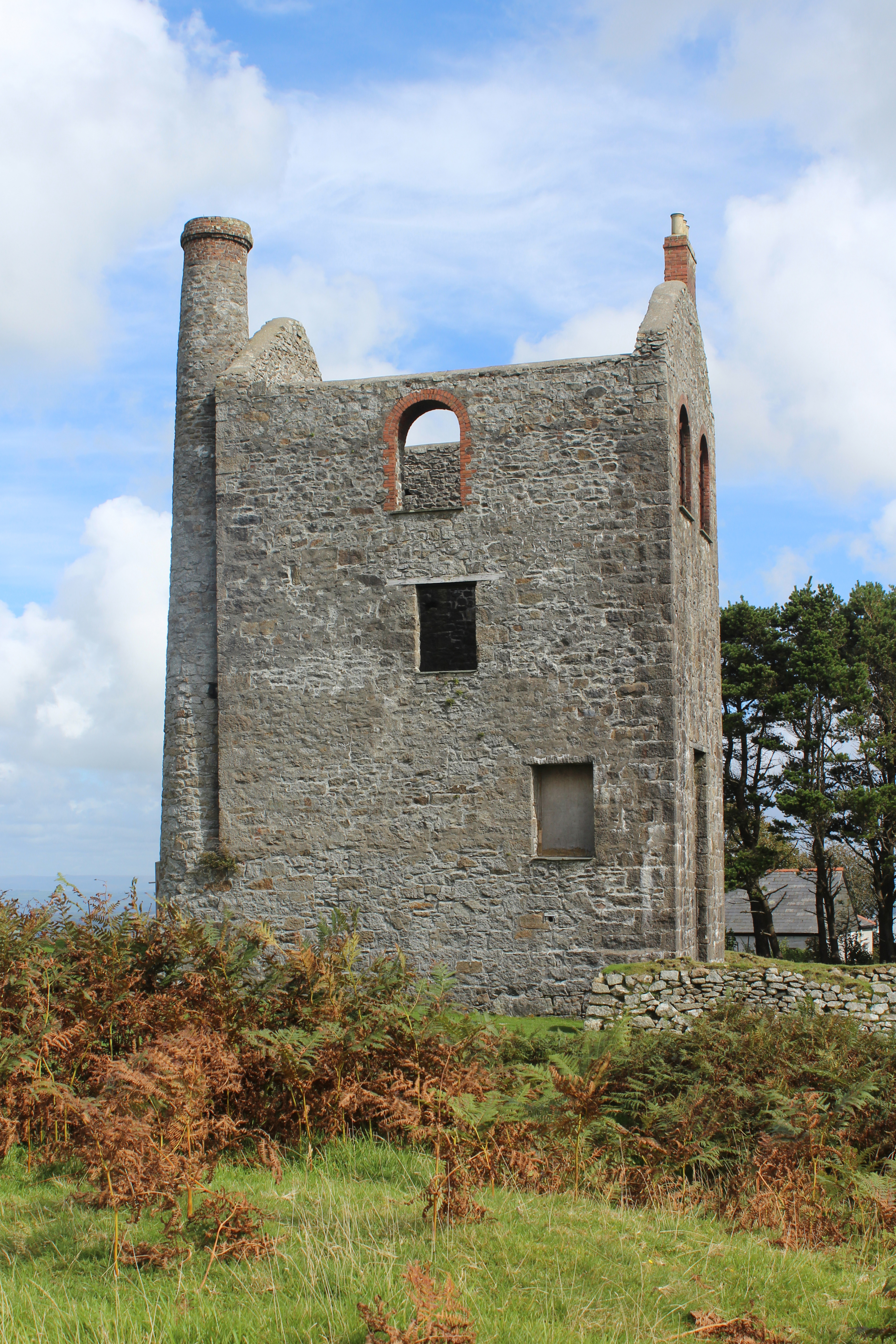 The South Phoenix Mine Engine House, Minions, Cornwall, built in 1881, served a copper and tin mine in the nineteenth century. The mine was finally abandoned in 1911. The engine house has since been refurbished and now houses the Minions Heritage Centre. This engine house is one of many on the UNESCO World Heritage Site "Cornwall and West Devon Mining Landscape".